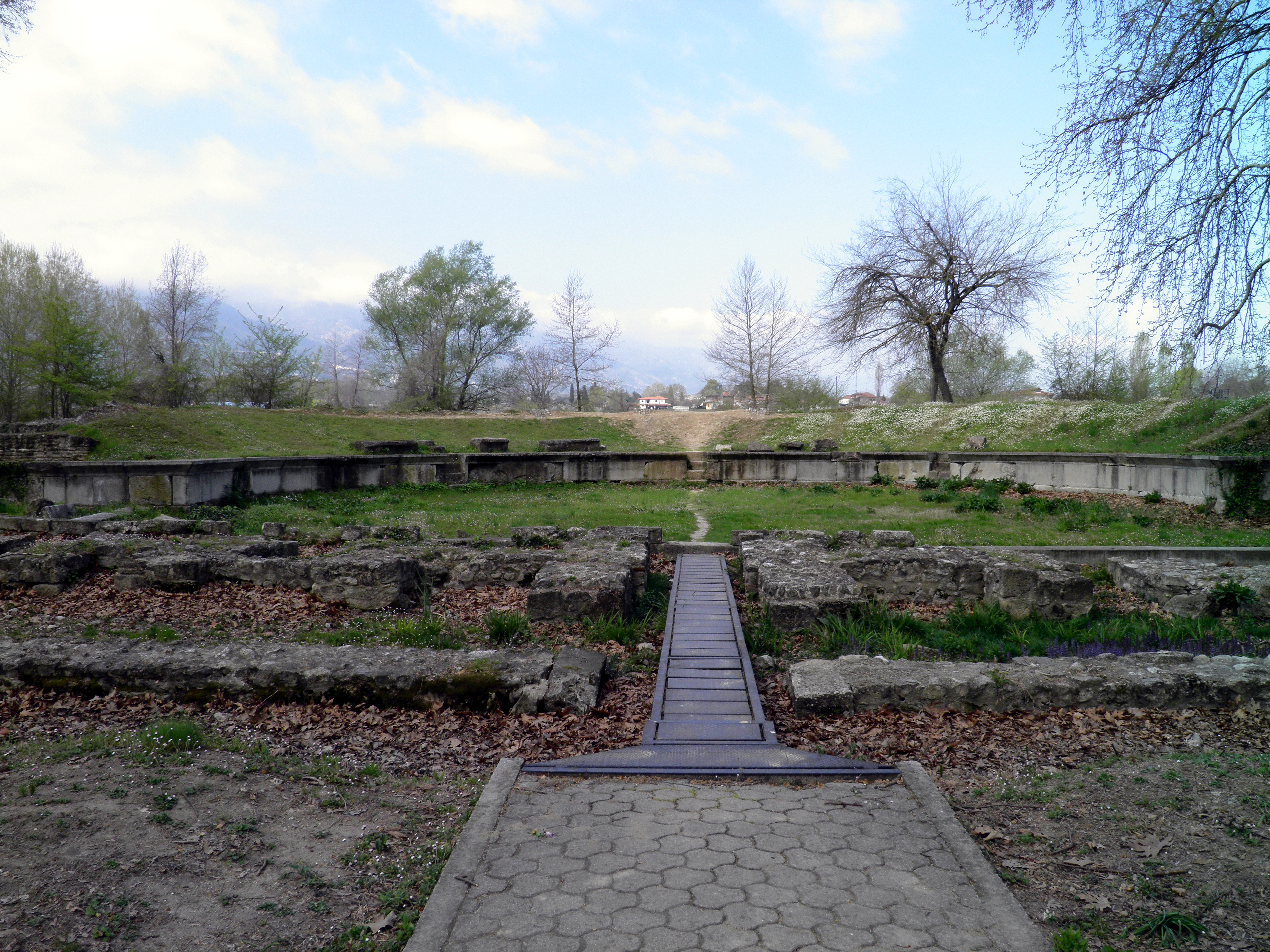 In the 2nd c. AD, probably in Hadrian's time, a second theatre was rected on the site of the sanctuary of Zeus Olympios. The Roman theatre of Dion is orientated to the east and its orchestra is horseshoe-shaped with a diameter of some 20 meters. A corridor surrounds the cavea and from this corridor radiating walls extend towards the center of the building, forming fourteen radiating vaulted rooms. The cone-shaped vaults supported the twenty four rows of the cavea which was divided by three staircases into four kerkdes (wedges-shaped sections of the auditorium). The building was constructed of blocks of porous and conglomerate, field stones, bricks an mortar. The nowadays visible lower part of the cavea consists of large, squared blocks, covered by a capping layer above which the construction continued with rough stonres and layers of brick. The stage building, of which not much remains above the foundation, was built separate from the koilon and the paodoi. The large proscenium was longer than the stage and had five openings. It was decorated with marble architectural elements, revetments and sculptures. Amond the pieces found, only a statue of Hermes holding the kerykeion (herald's staff) and fragments of a statue with cuirass were found in good condition.